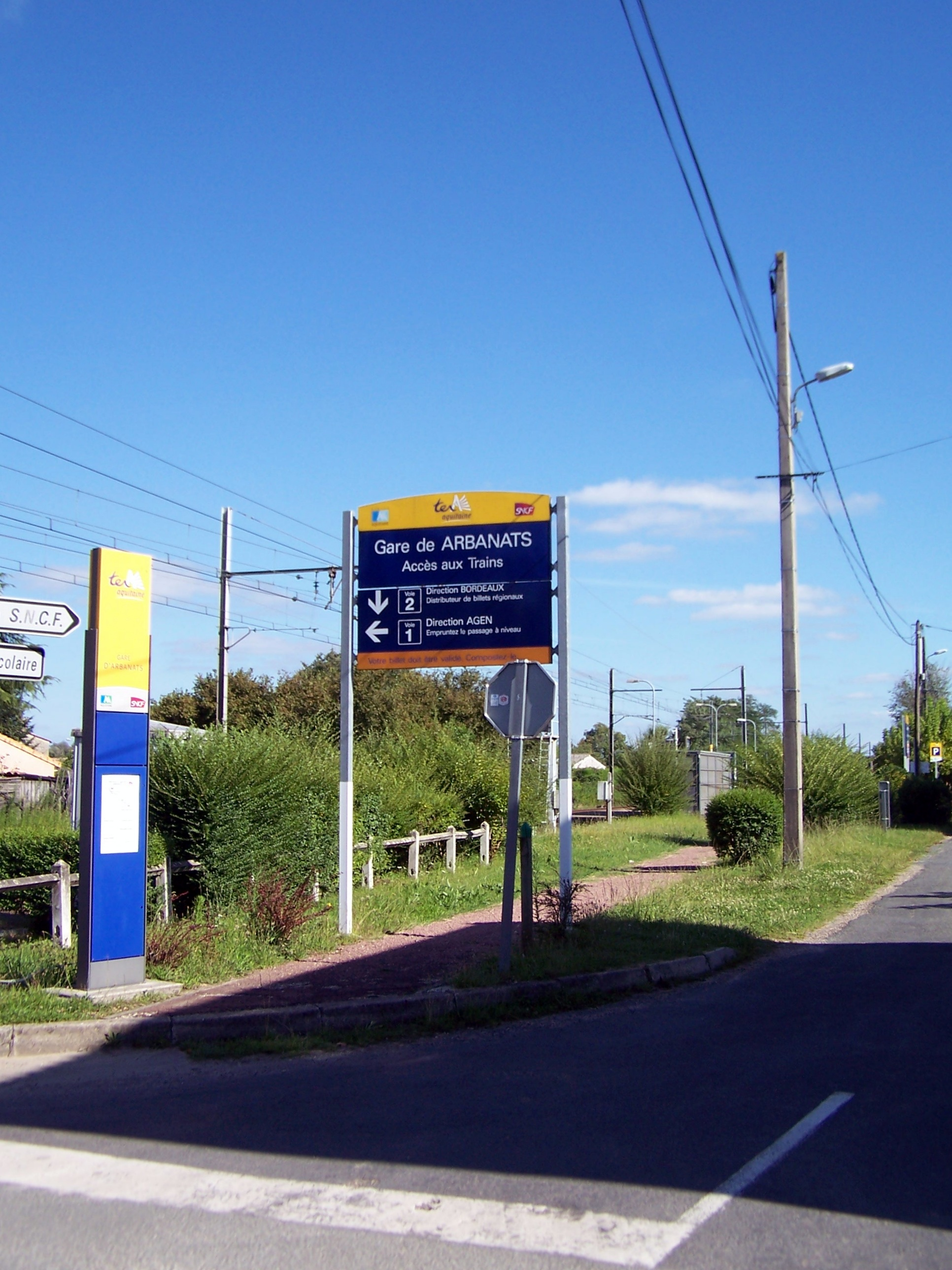 Train station of Arbanats (Gironde, France)